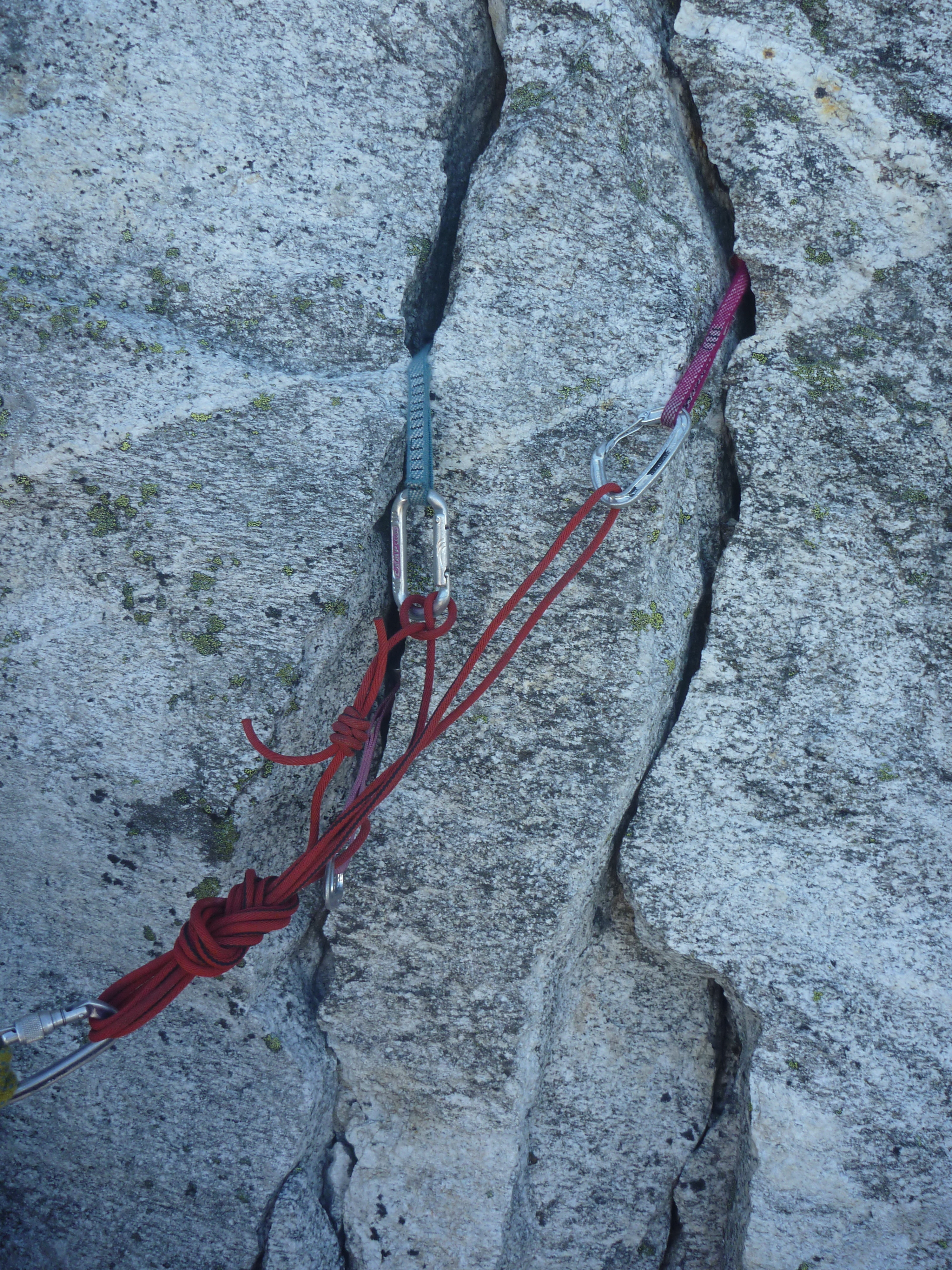 Cordelette at belay anchor